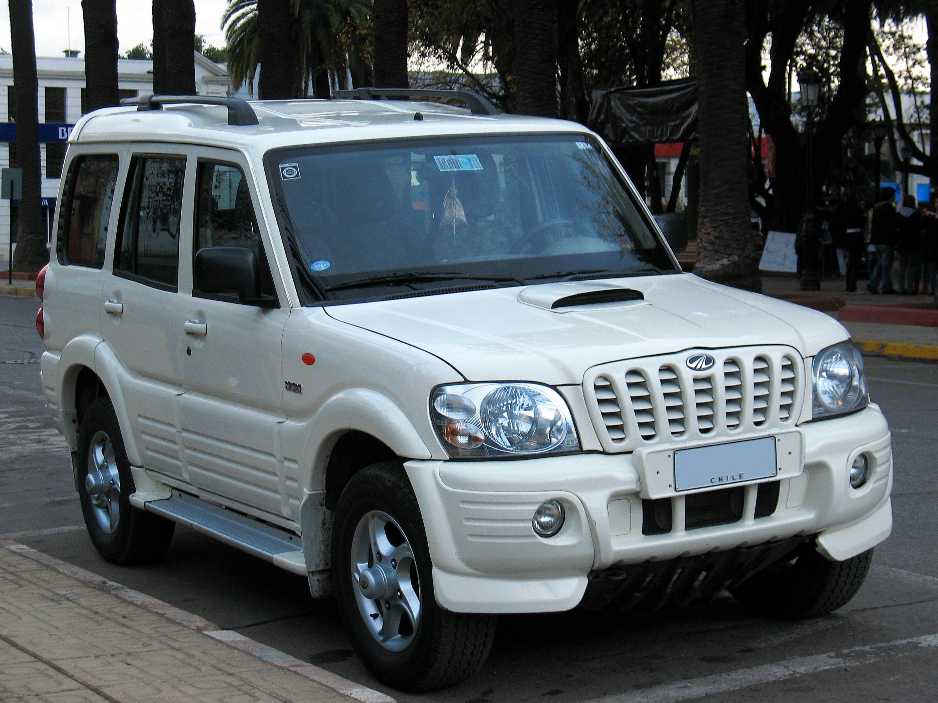 Mahindra Scorpio GLX 2.5 CRDe 4WD 2009